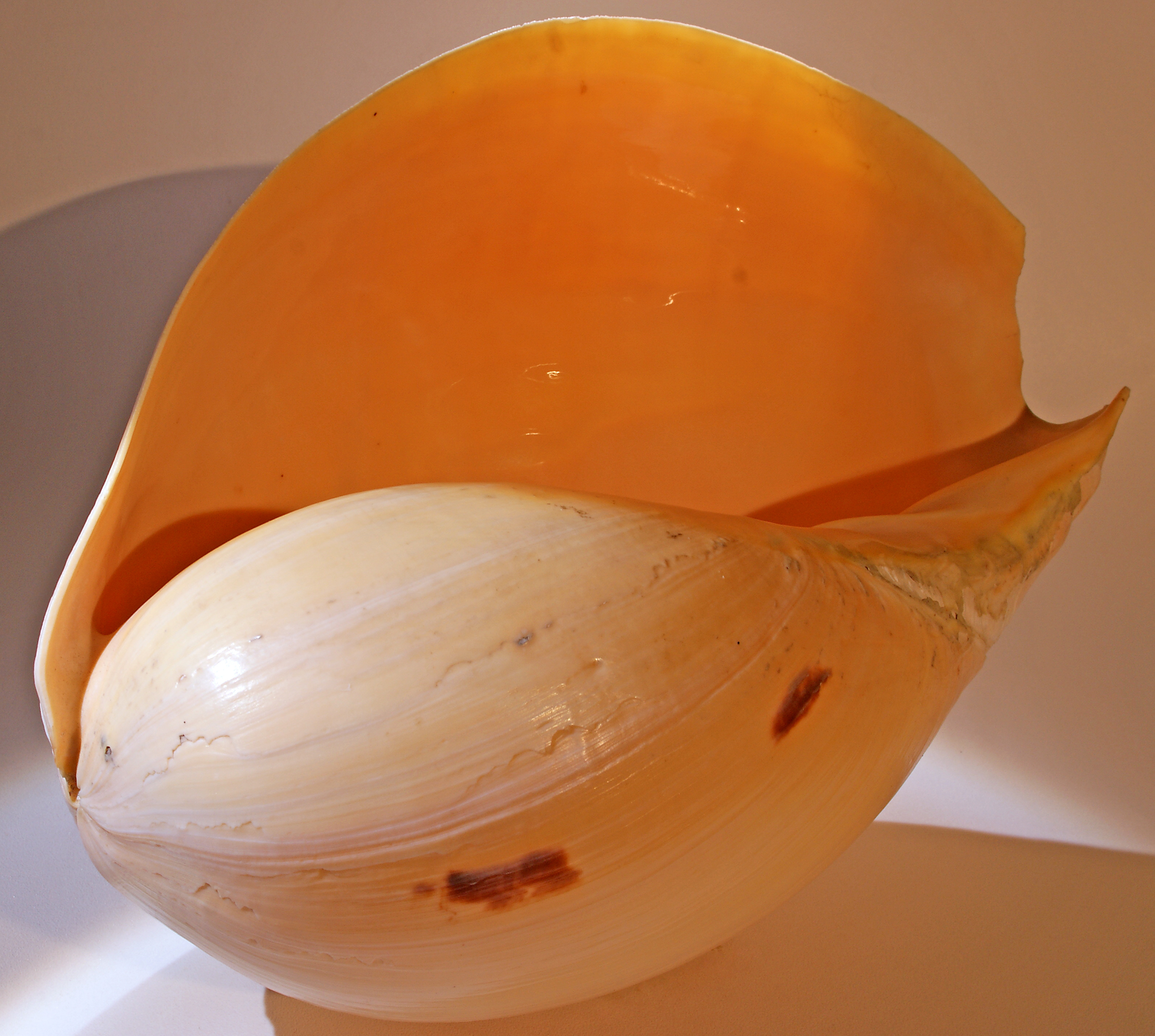 Melo melo Indian Ocean (23 cm)